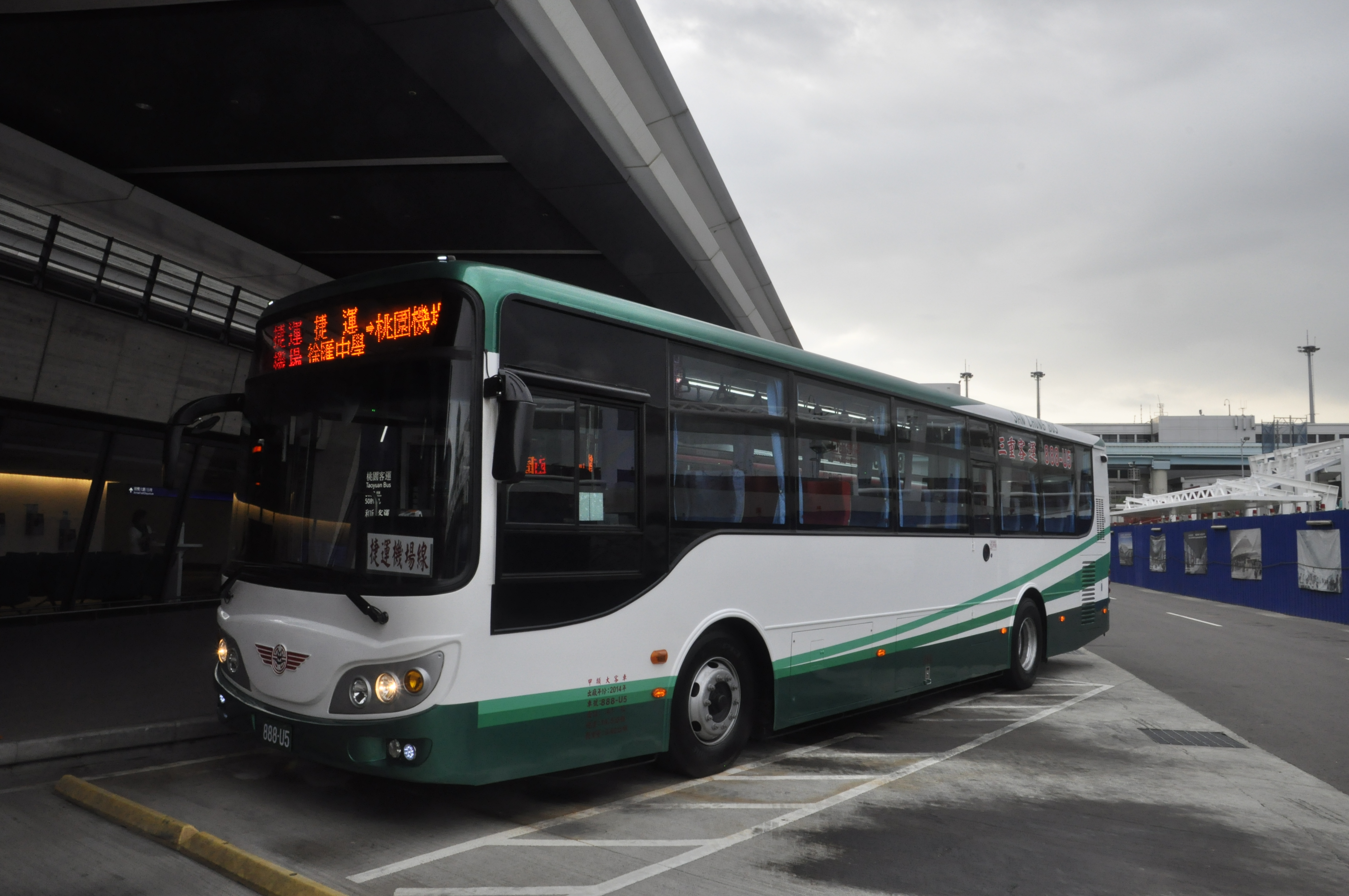 MRT T.T.I.A. Trial Bus 888-U5 at T.T.I.A T1